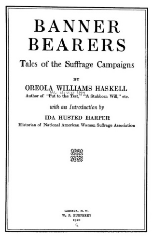 Oreola Williams Haskell's Novel, Banner Bearers.